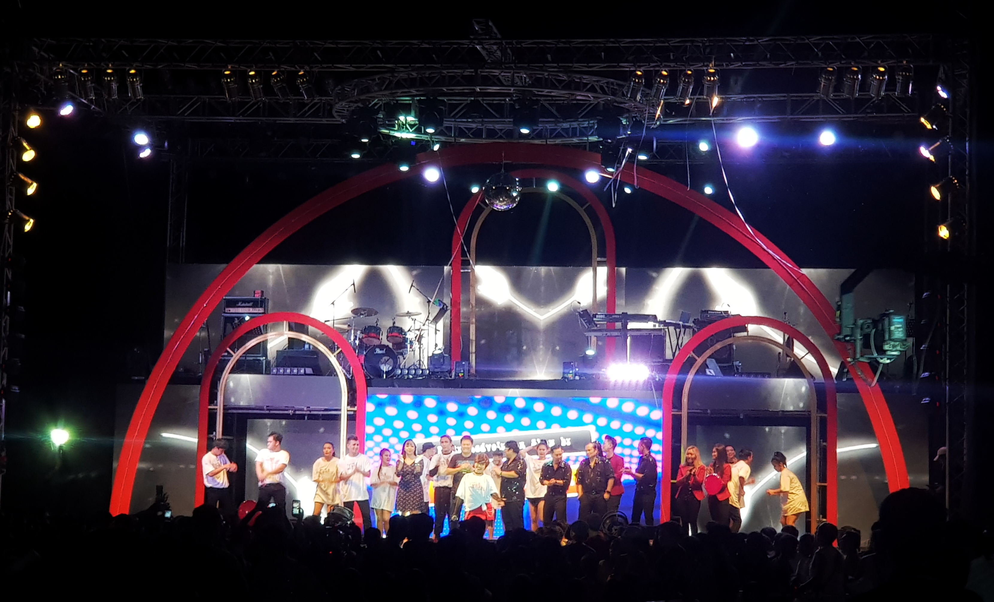 Party REDVolution Show, the conclusion